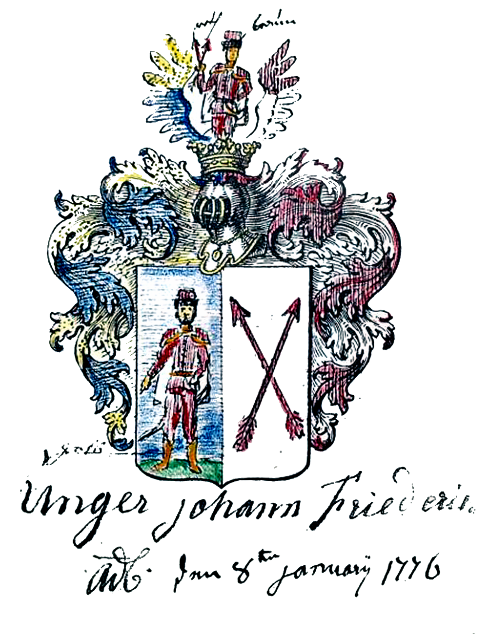 Coat of Arms - "Unger" German noble family